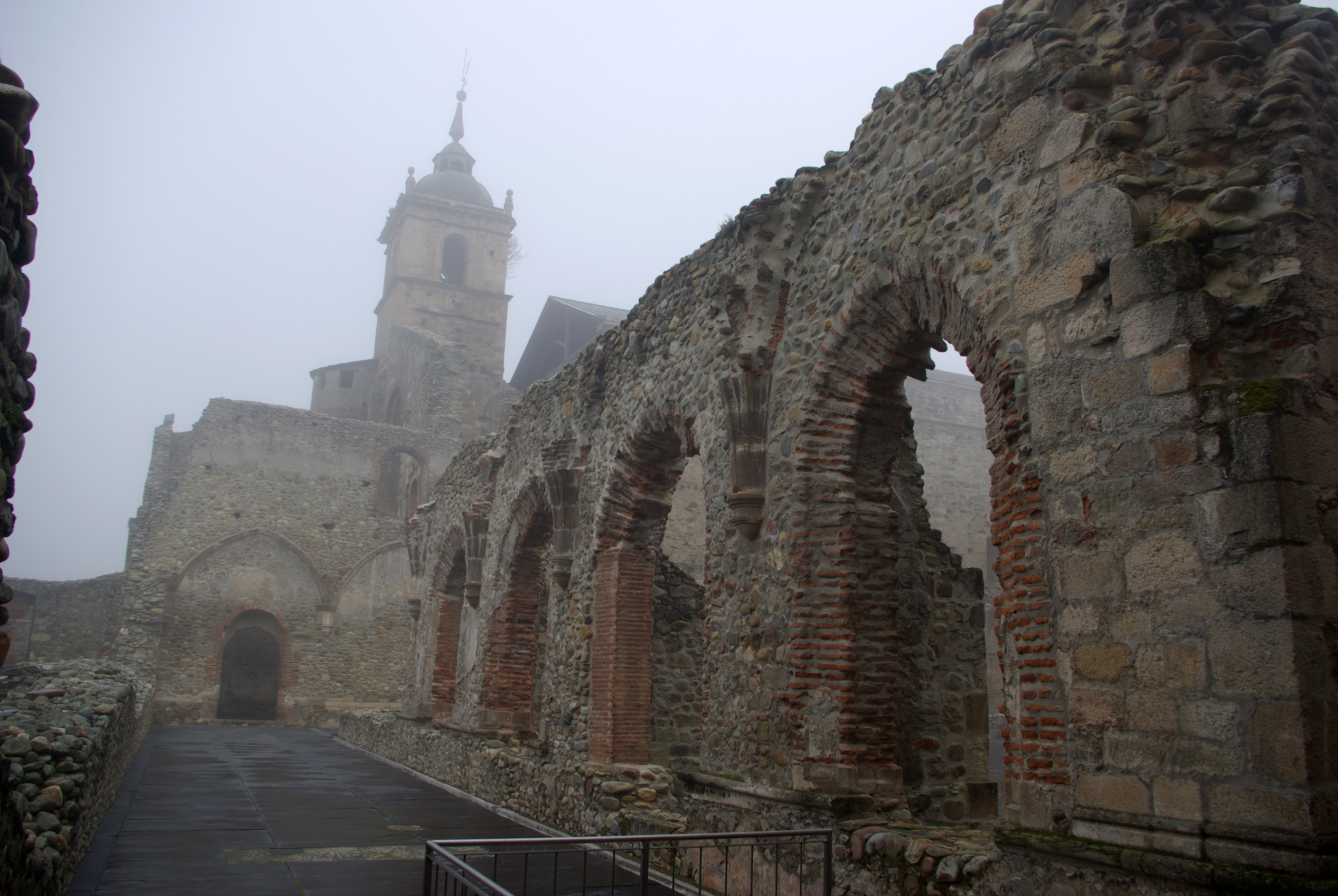 Monastery of Saint Mary in Carracedelo (León, Spain).